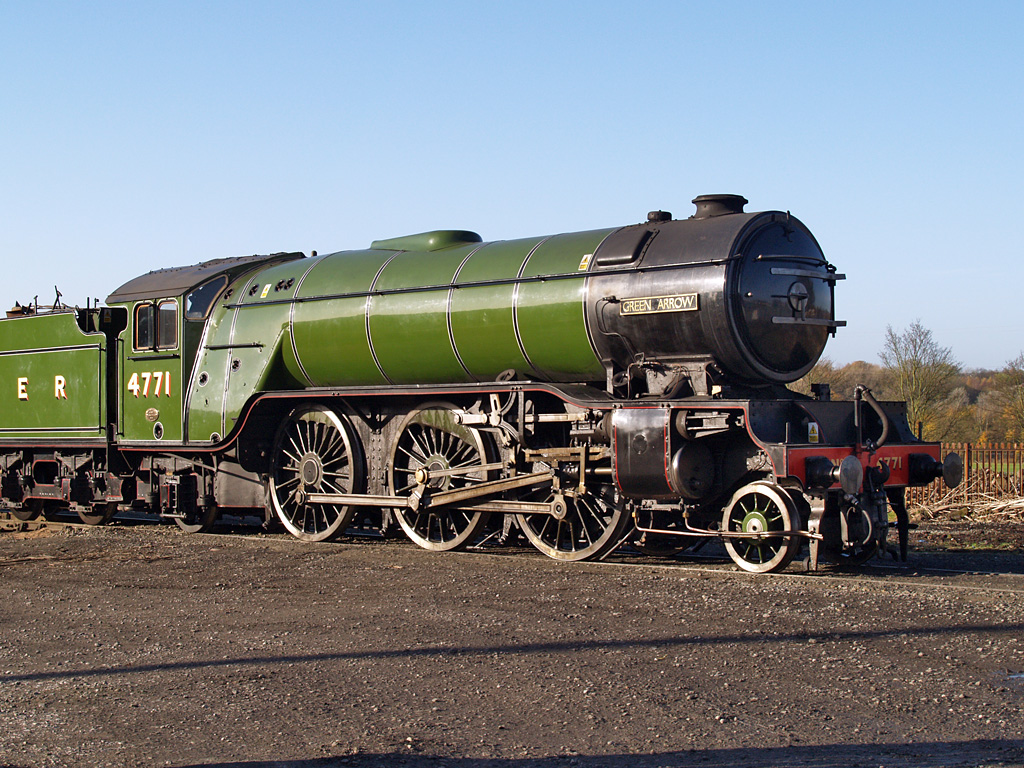 National Railway Museum's London and North Eastern Railway Gresley 2-6-2 ?V2? class locomotive number 4771 GREEN ARROW at Buckley Wells level crossing at Bury. Tuesday 6th November 2007